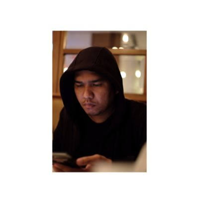 Fajar Bustomi